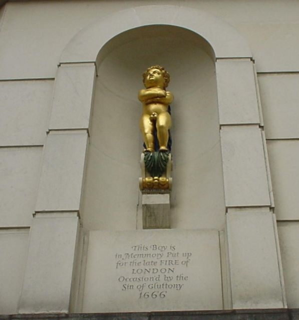 Golden Boy of Pye Corner Photo taken by lonpicman